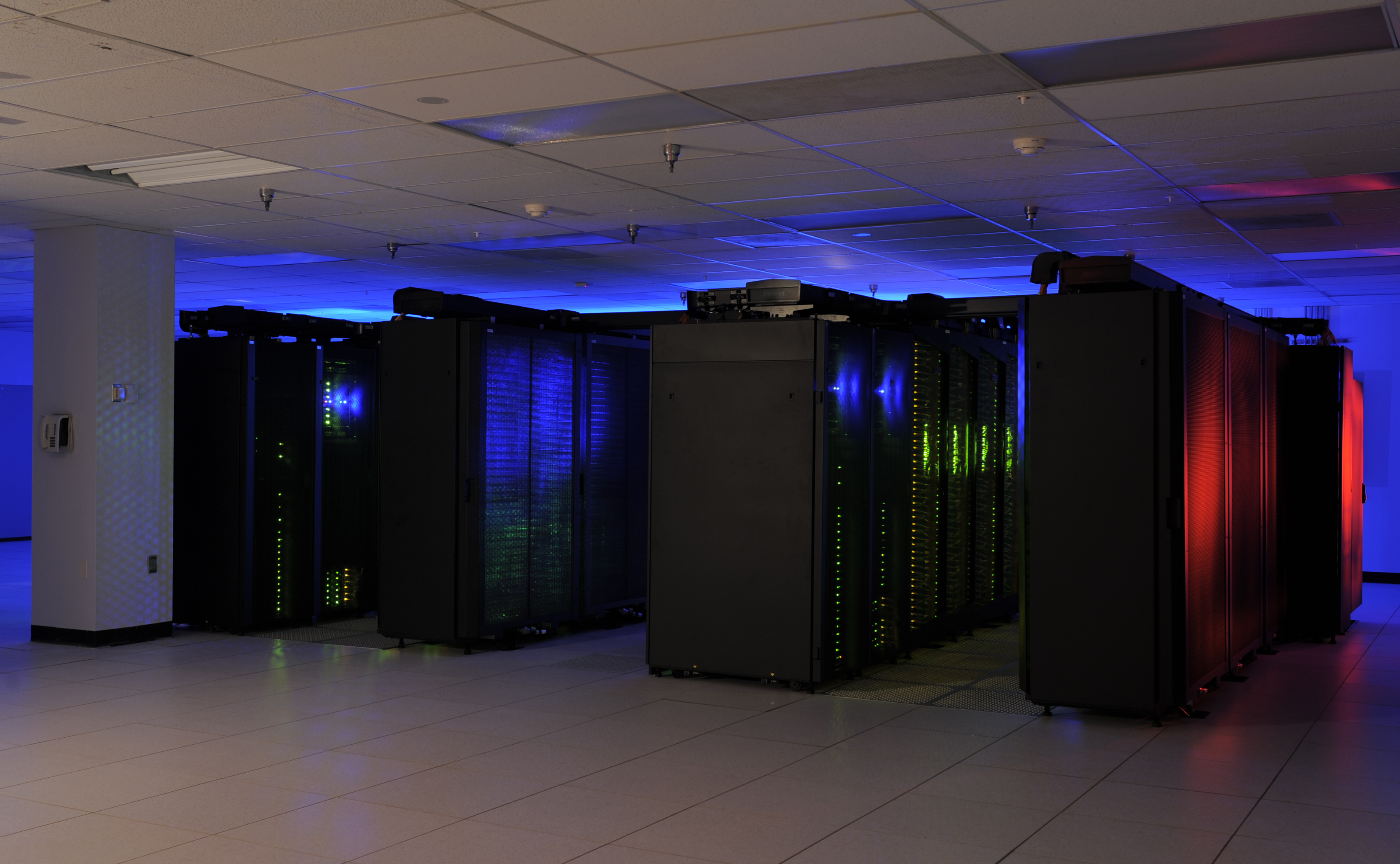 The heart of the NASA Center for Climate Simulation (NCCS) is the “Discover” supercomputer. In 2009, NCCS added more than 8,000 computer processors to Discover, for a total of nearly 15,000 processors. Credit: NASA/Pat Izzo To learn more about NCCS go to: NASA Goddard Space Flight Center is home to the nation's largest organization of combined scientists, engineers and technologists that build spacecraft, instruments and new technology to study the Earth, the sun, our solar system, and the universe.